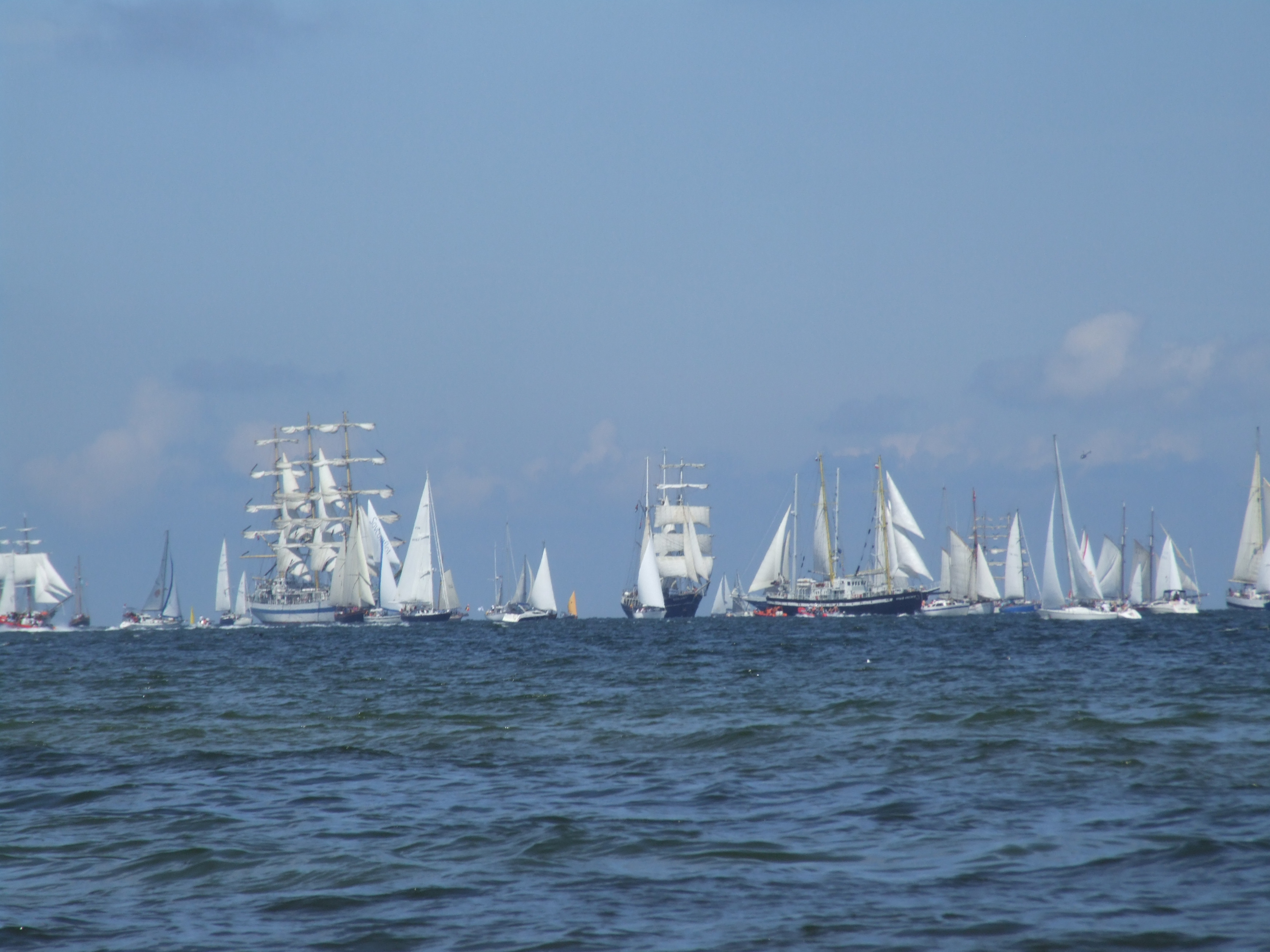 The Tall Ships' Races, Gdynia 02-05.07.2009; a view from Redłowo beach